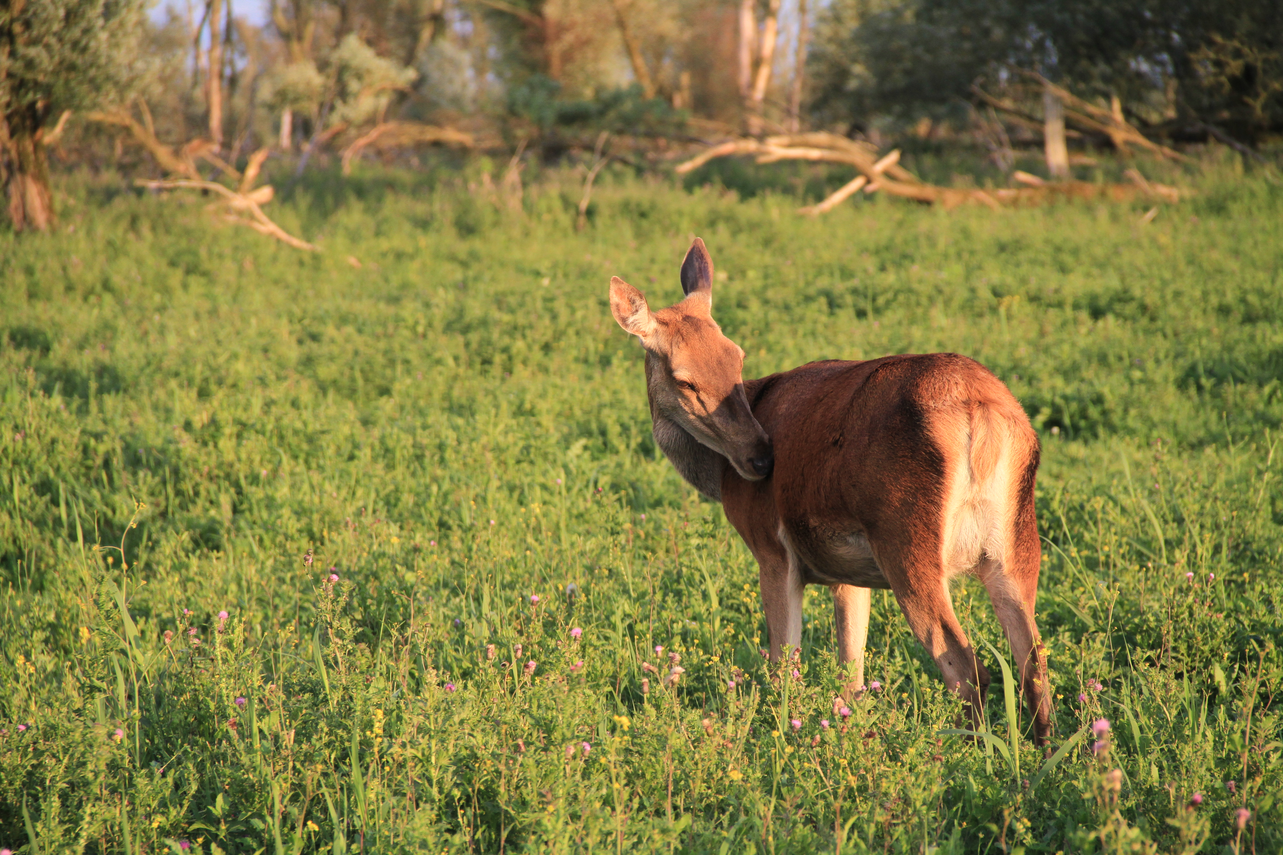 Deer at the Oostvaardersplassen, Flevoland, The Netherlands